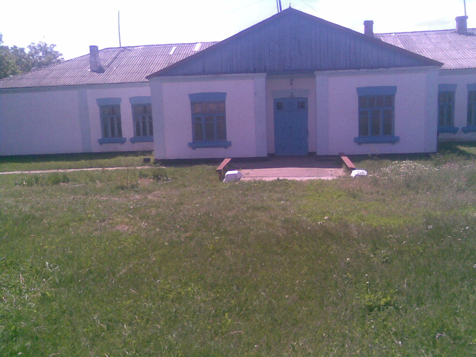 Восьмирічна школа